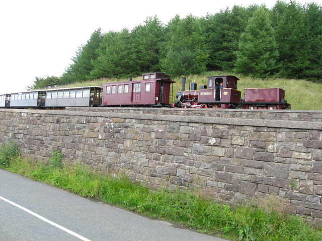 Brecon Mountain Railway train entering Pant Station